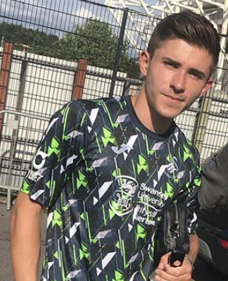 Declan John in his Swansea training gear prior to the start of the 2019/20 EFL Championship season